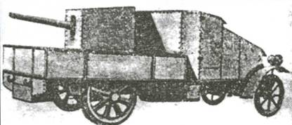 Russian armored car «Renault».